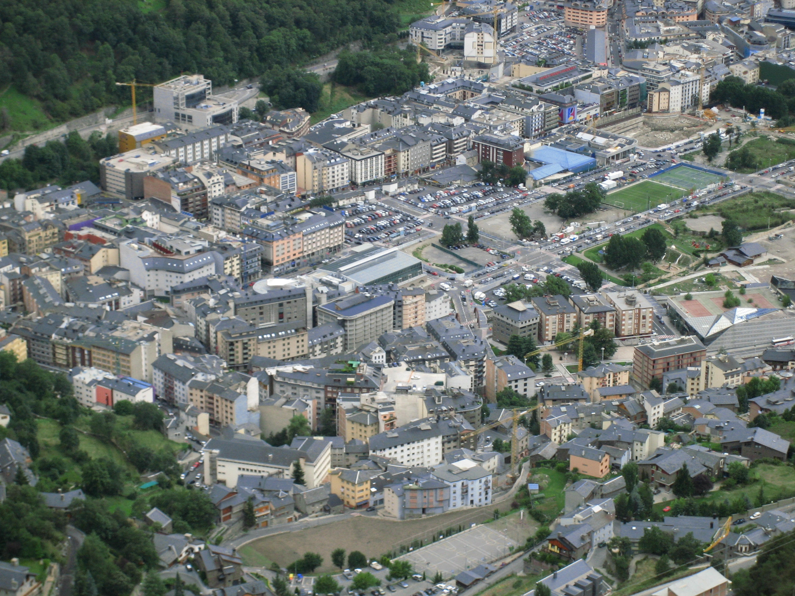 View of Escaldes-Engordany, Andorra